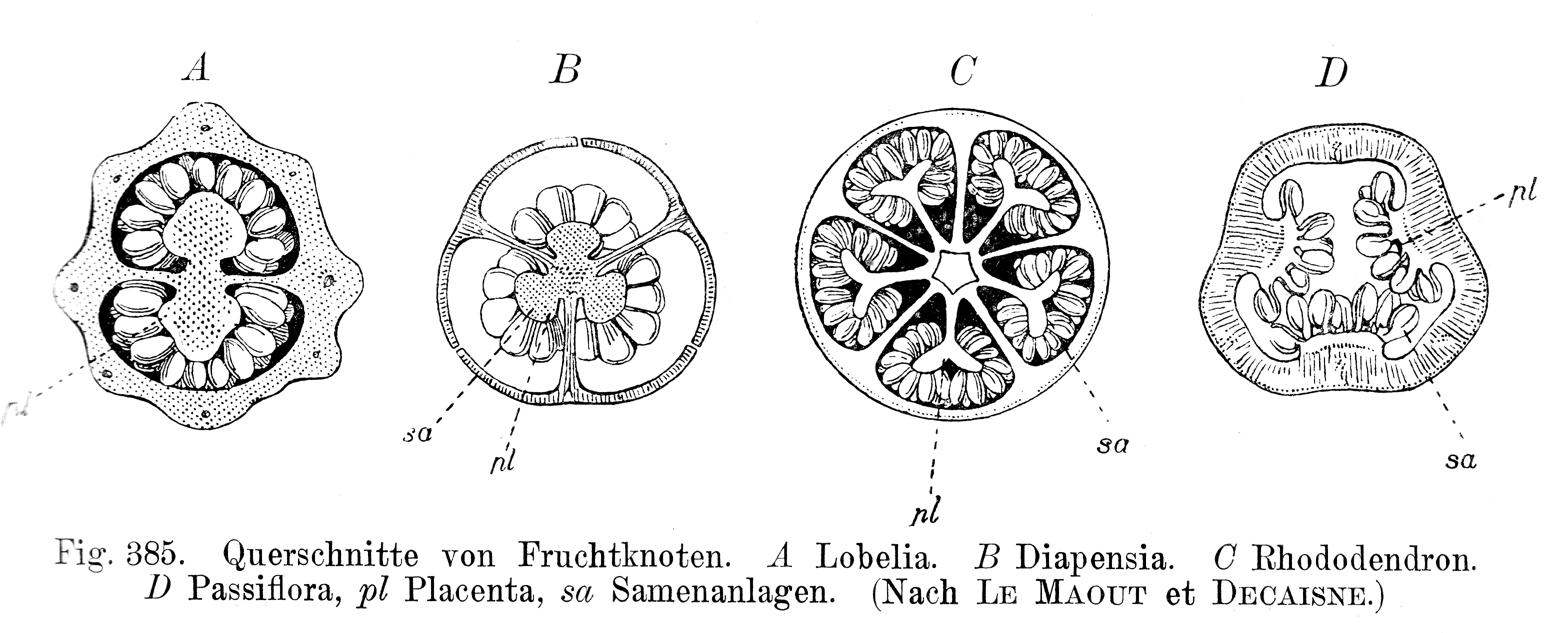 Plazentation im Fruchtknoten / placentation in ovules